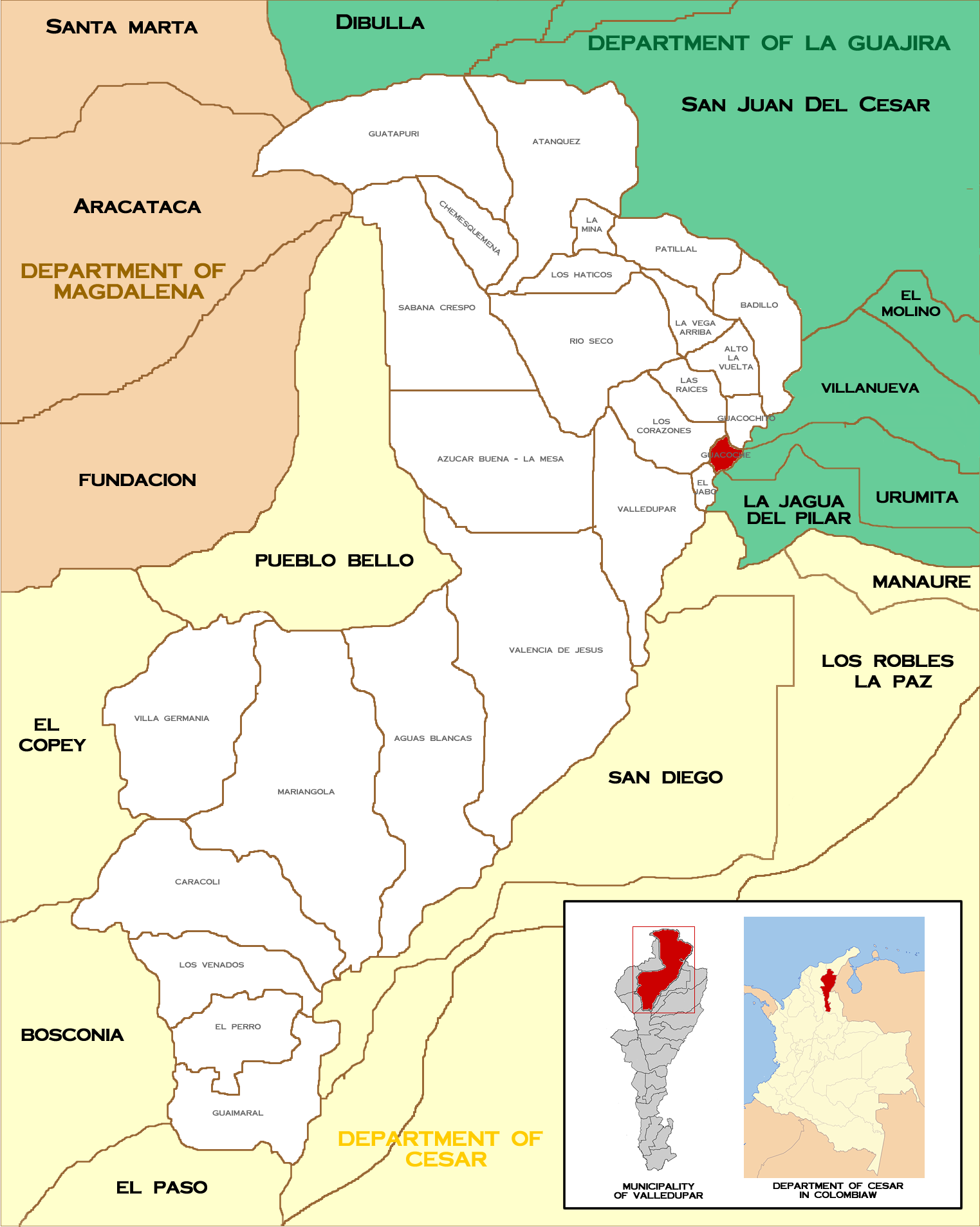 Map of Corregimientos of Valledupar, Guacoche